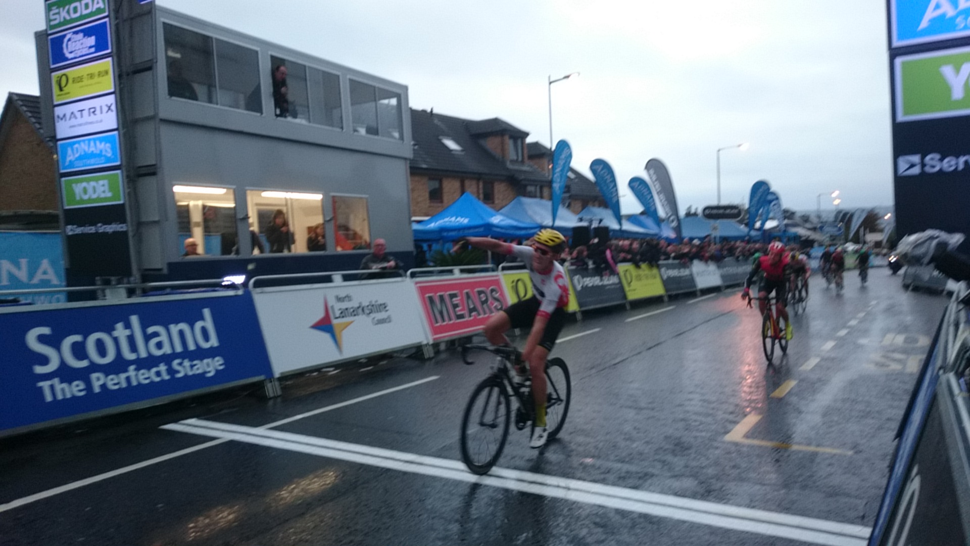 Jon Mould celebrates winning Round 2 of the Pearl Izumi Tour Series in Motherwell, on 17 May 2016